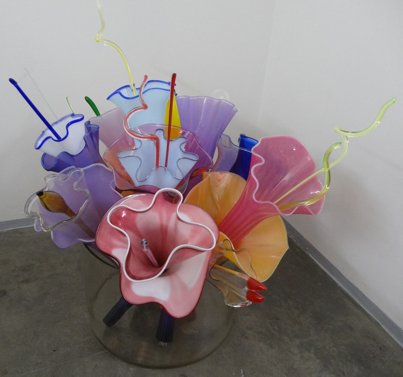 Miluše Roubíčková (* 1922), Czech glass artist: glass object "Bouquet" originally designed for Expo 67 in Canada, at the exhibition "Glass and why not II", Czech Republic, Prague (2012 / 2013), Museum Kampa - The Jan and Meda Mládek foundation